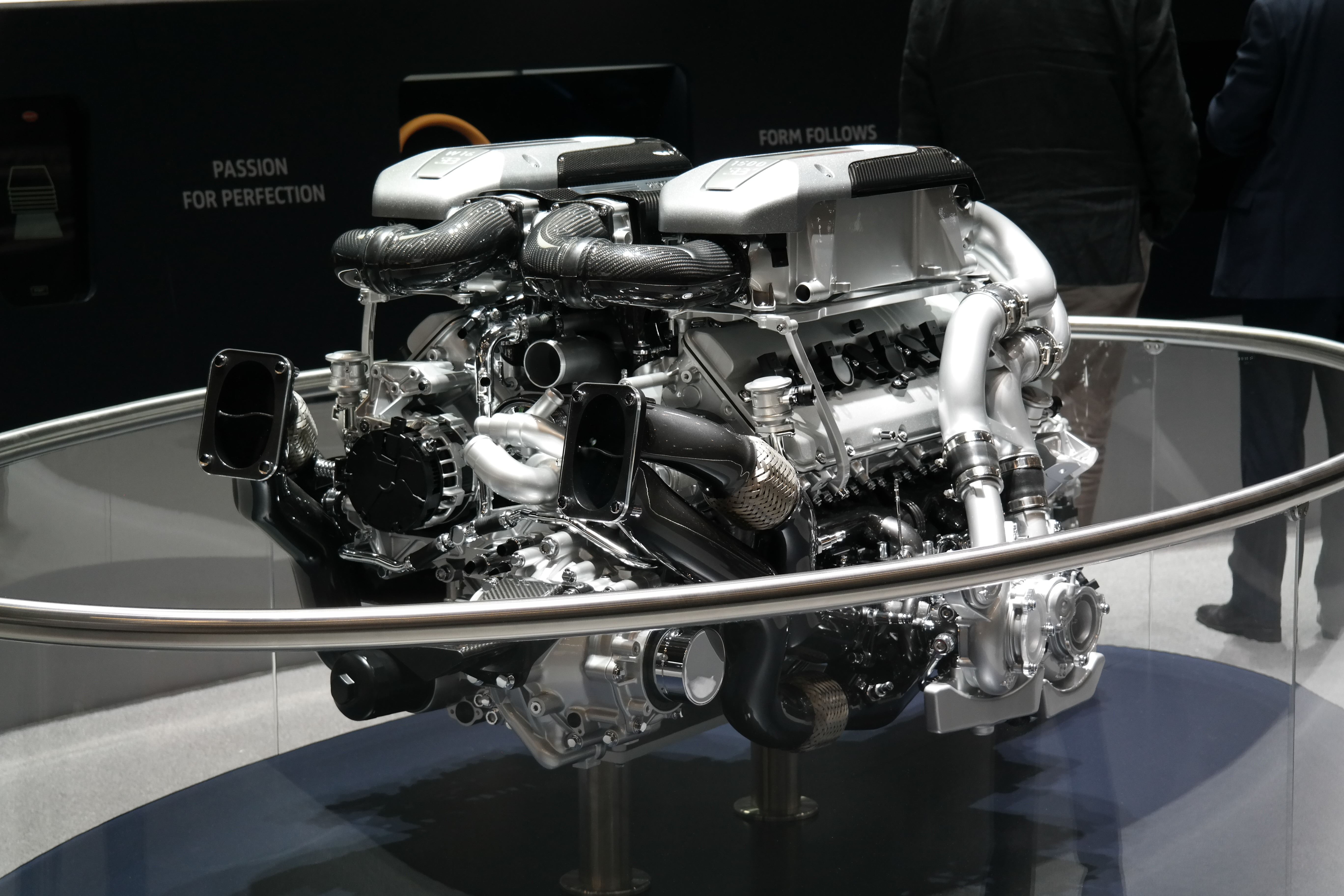 Engine of Bugatti Chiron. Geneva Motor Show 2016 (photo taken on the first press day)